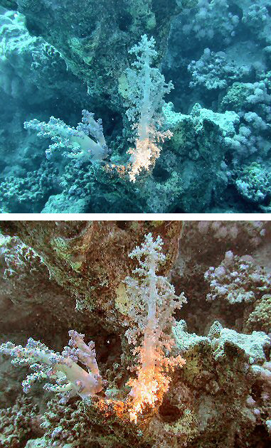 Color temperature in underwater photography